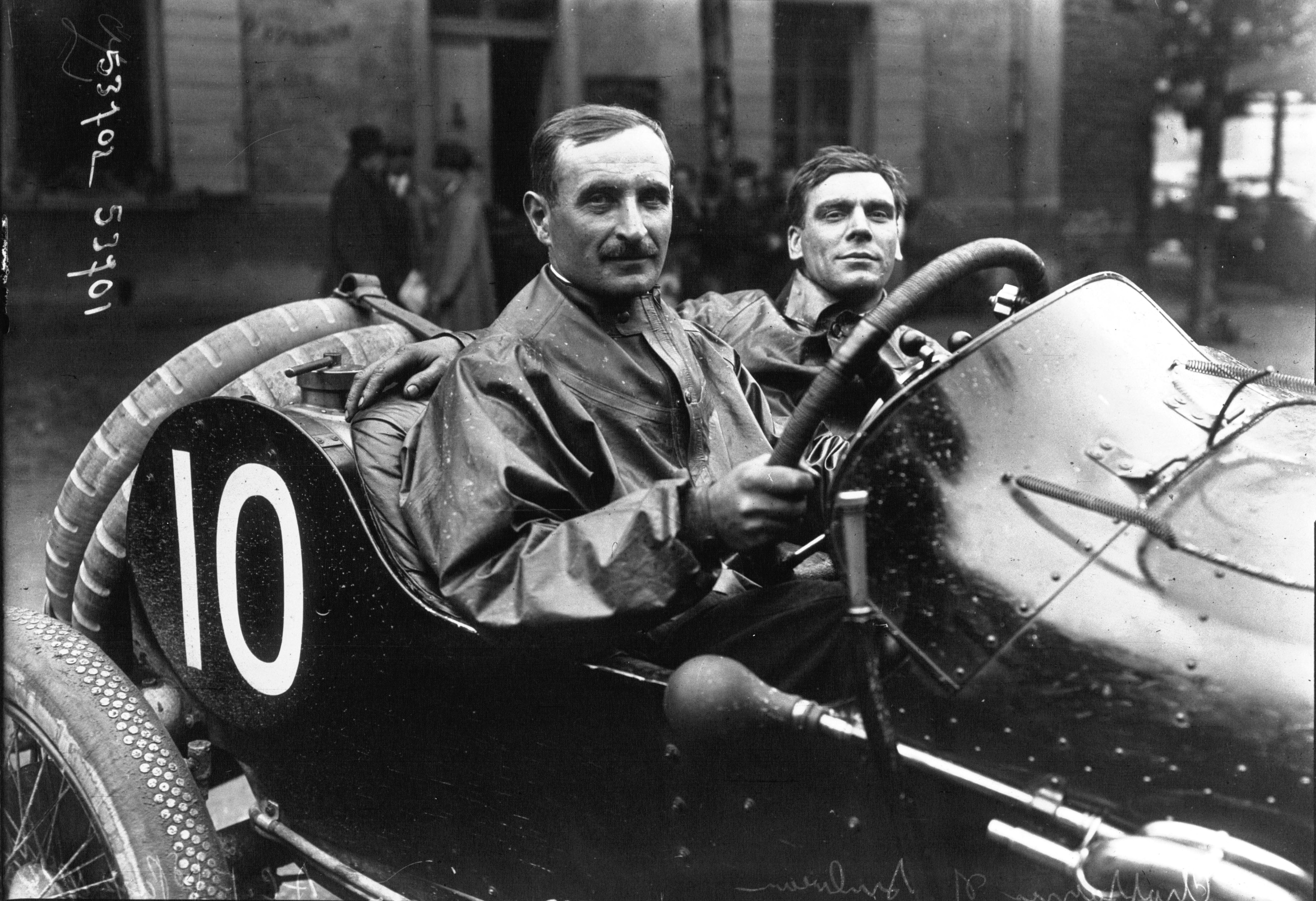 Jean Chassagne at the 1914 French Grand Prix